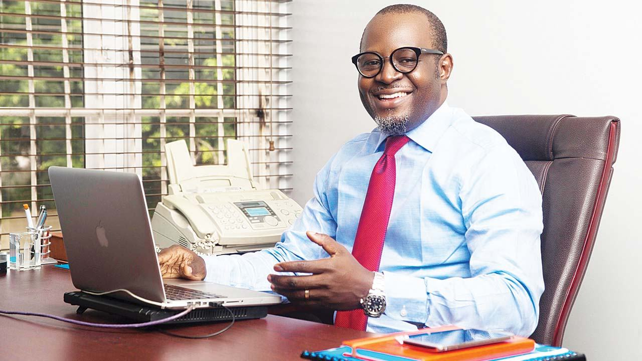 photo of Bankole Bernard